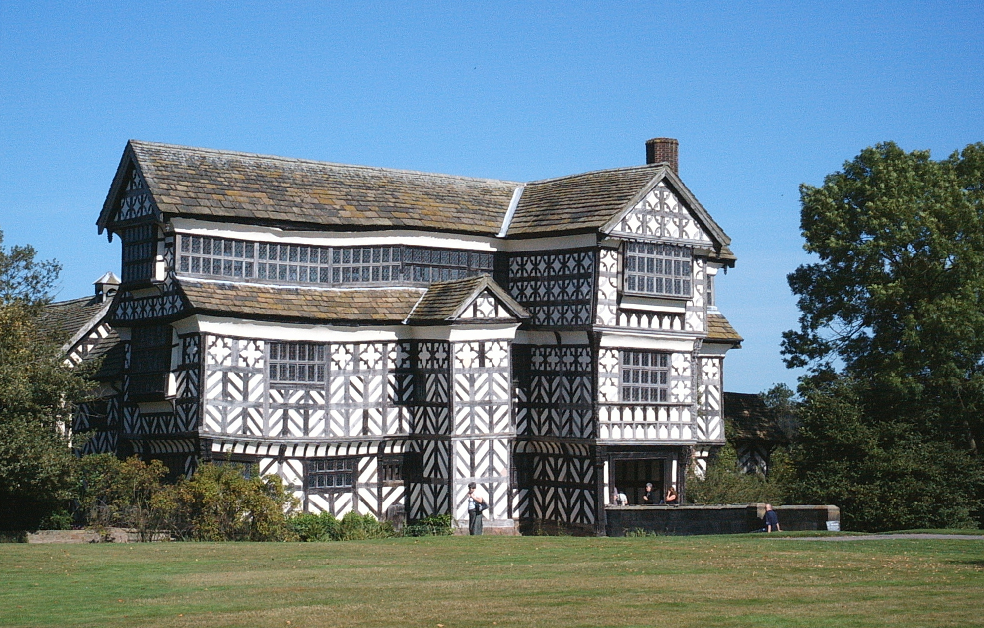 Moreton Hall, National Trust gem, Congleton, Cheshire, UK